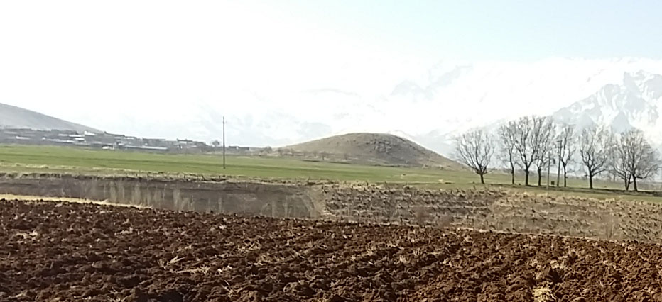 تپه زین الدین